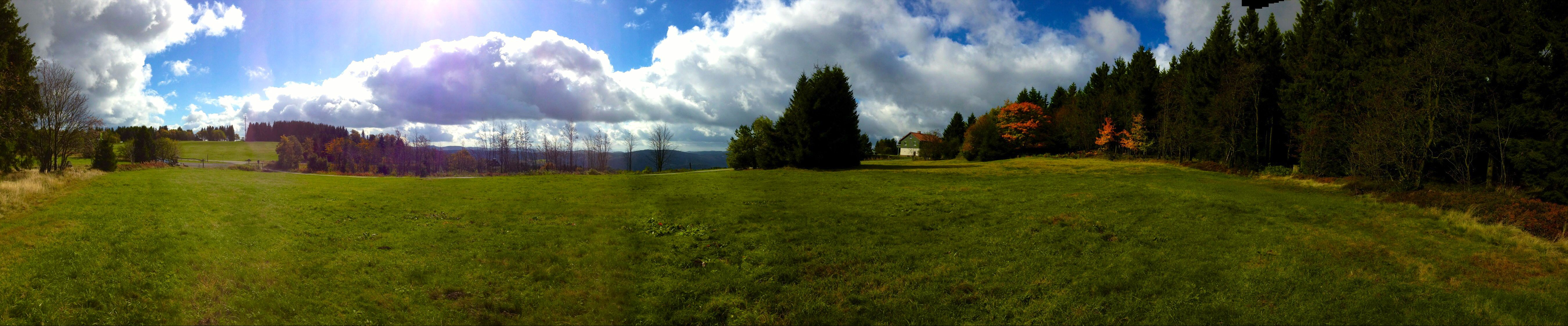 Jordanshöhe is a peak in the Harz Mountains